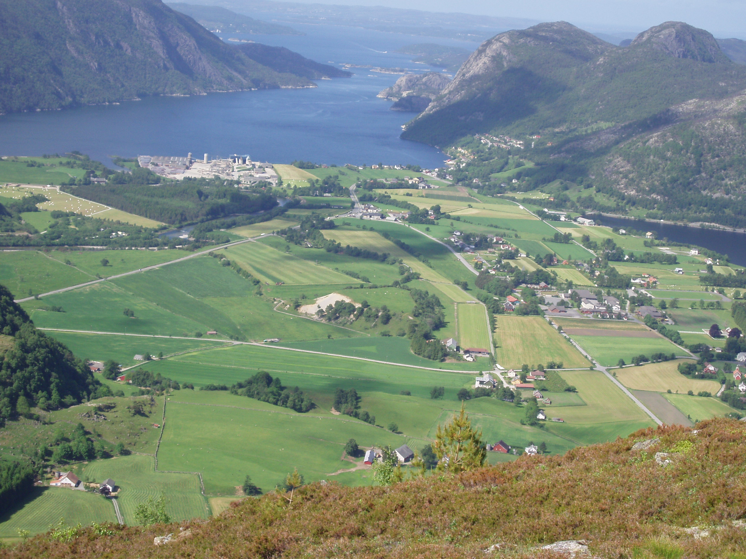 Picture of Årdal in Ryfylke, Rogaland